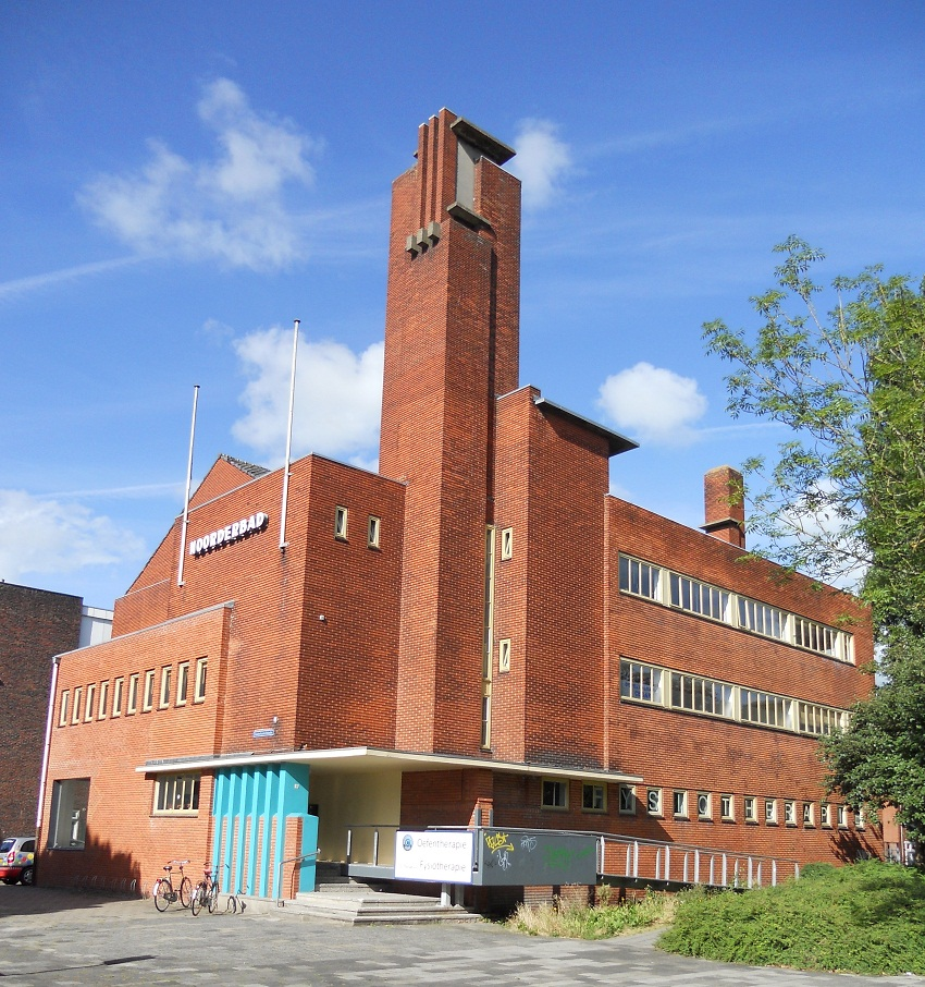 Noorderbad, a swimming pool in the city of Groningen in the Netherlands.